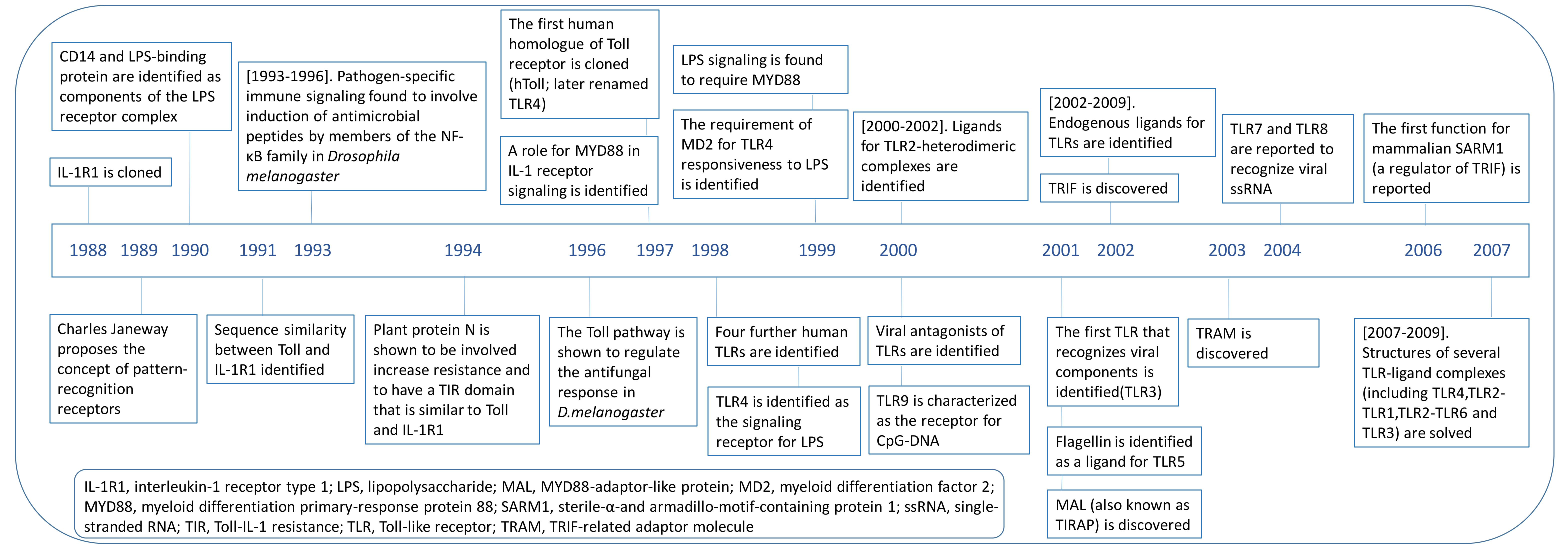 History of Toll like receptors. This figure is remade from the published work[1]. You can download the ppt files,pdf files from this link